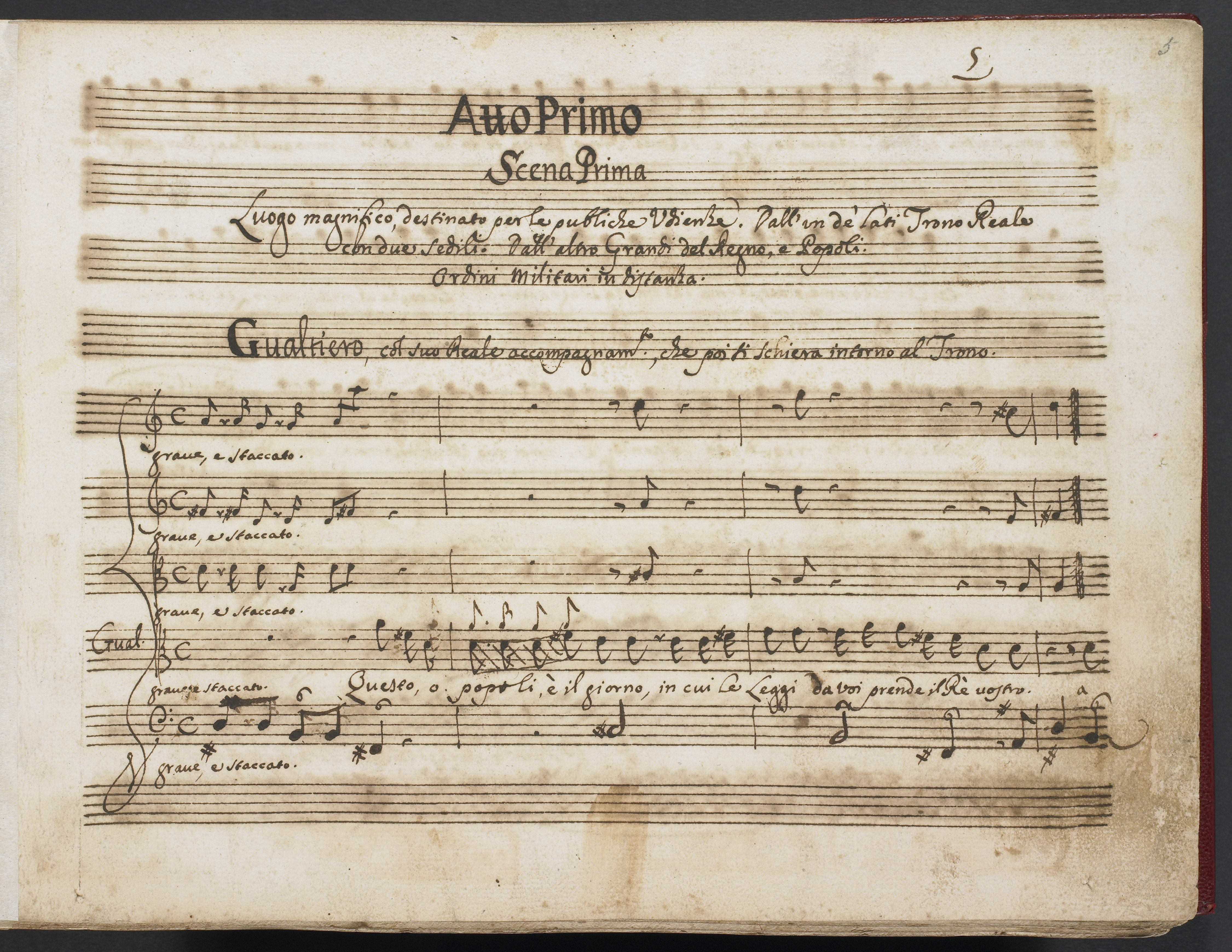 Act one, scene one, of Scarlatti's final opera Griselda (1721). In the composer's own hand.